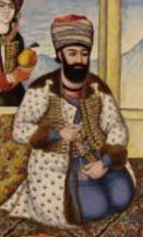 King Ali Murad Khan Zand, of the Zand dynasty